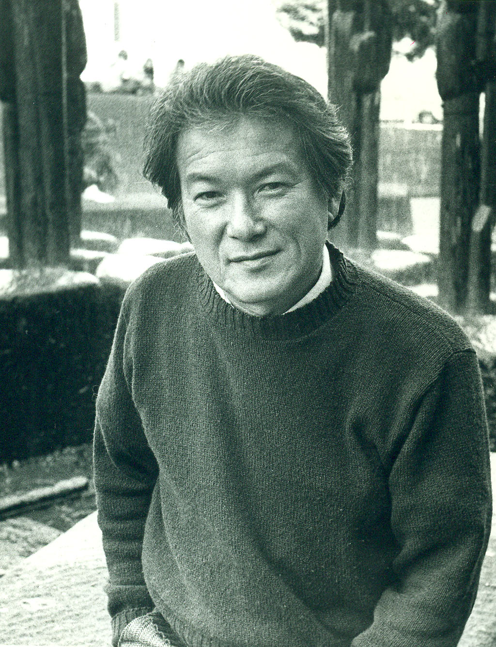 Milton Murayama (born April 10, 1923, Lahaina, Maui, Hawaii) is an American Nisei novelist and playwright. His first novel, All I Asking for Is My Body (1975) is considered a classic novel of the experiences of Japanese Americans in Hawaii before and during World War II. Photo by Nancy Wong, San Francisco, California 1975.